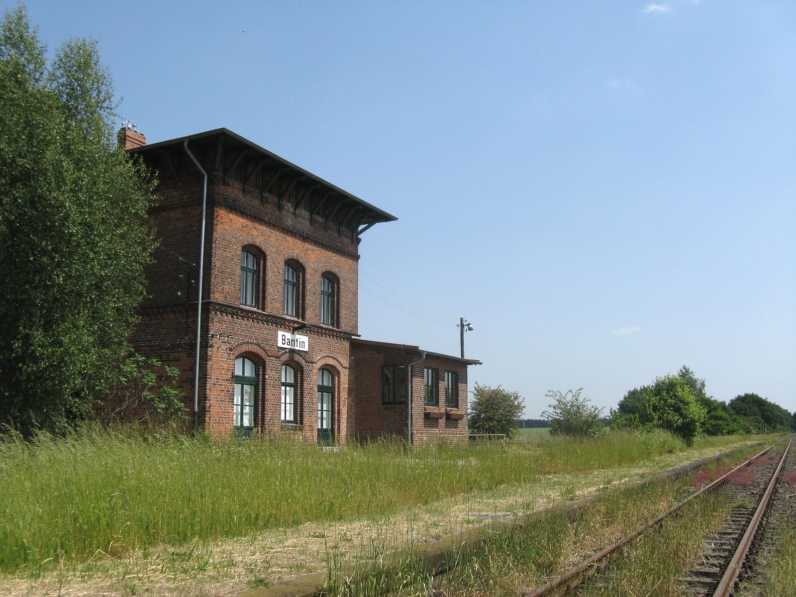 Train station in Bantin, Mecklenburg-Vorpommern, Germany at line Kaiserbahn